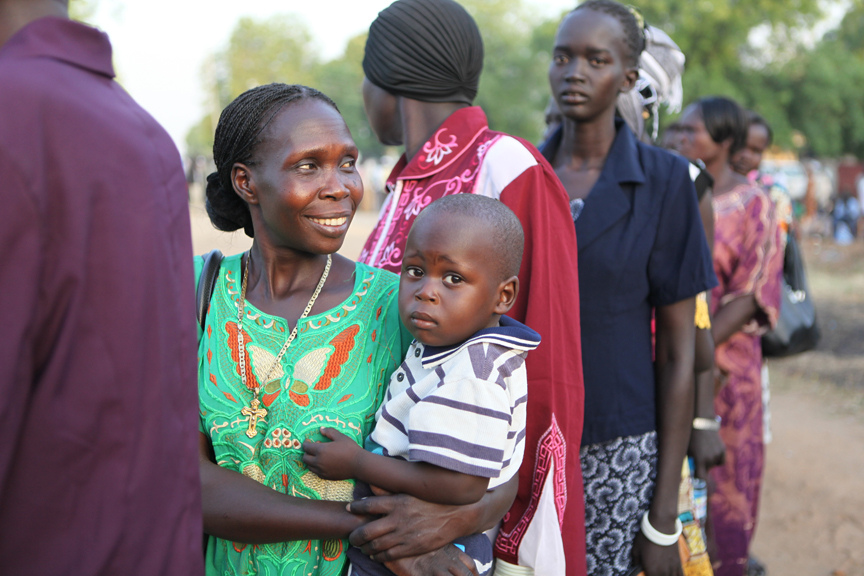 Southern Sudanese line up to vote in Juba on January 9, 2011, the first of seven days of referendum polling.